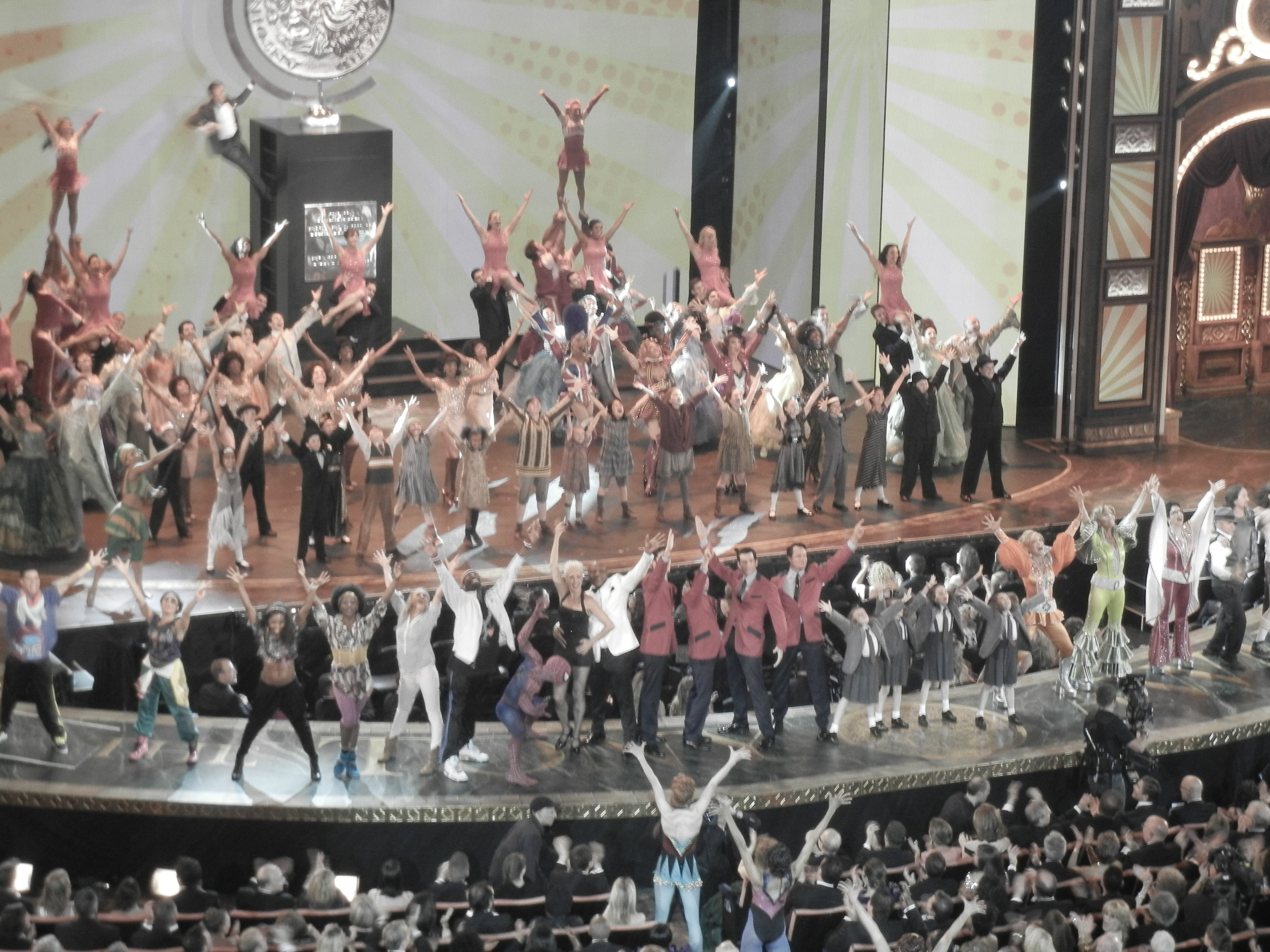 Opening number of the 2013 Tony Awards